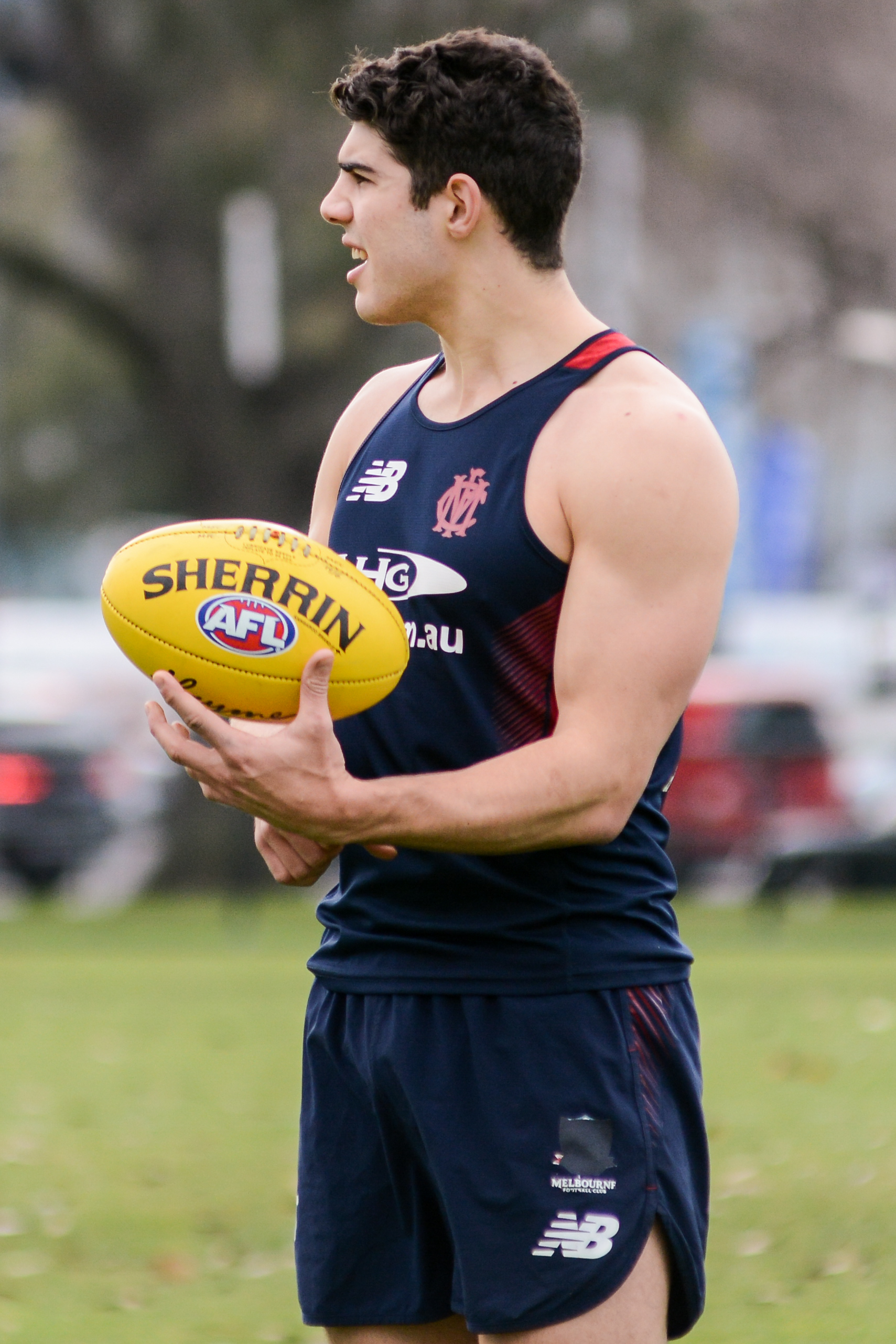 Christian Petracca at training during July 2015